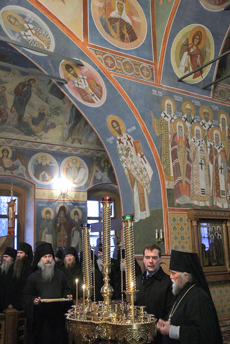 President of Russia, Dmitry Medvedev, visit the Optina Monastery in Kozelsk.